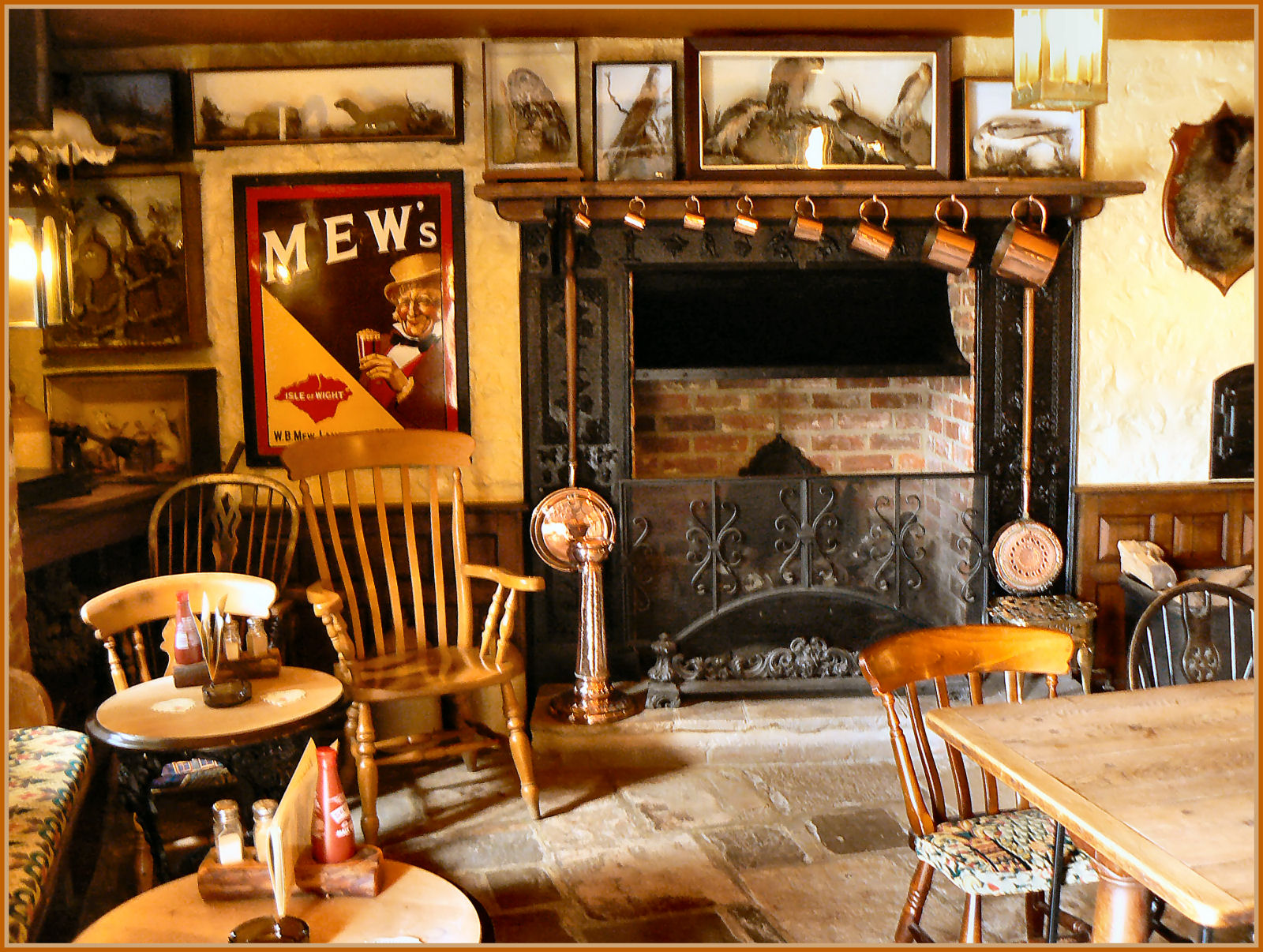 The Dairyman's Daughter public house, Arreton, Isle of Wight